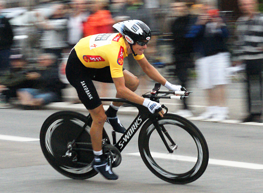 Jakob Fuglsang (DEN) during Tour of Denmark/Post Danmark Rundt 2009, stage 5 (timetrial 15,5 km)